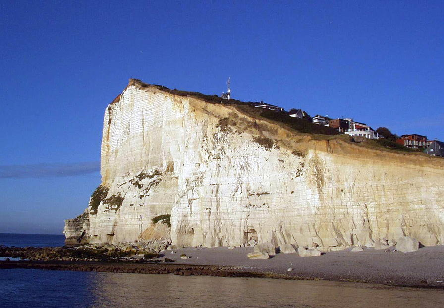 Cap Fagnet à Fécamp